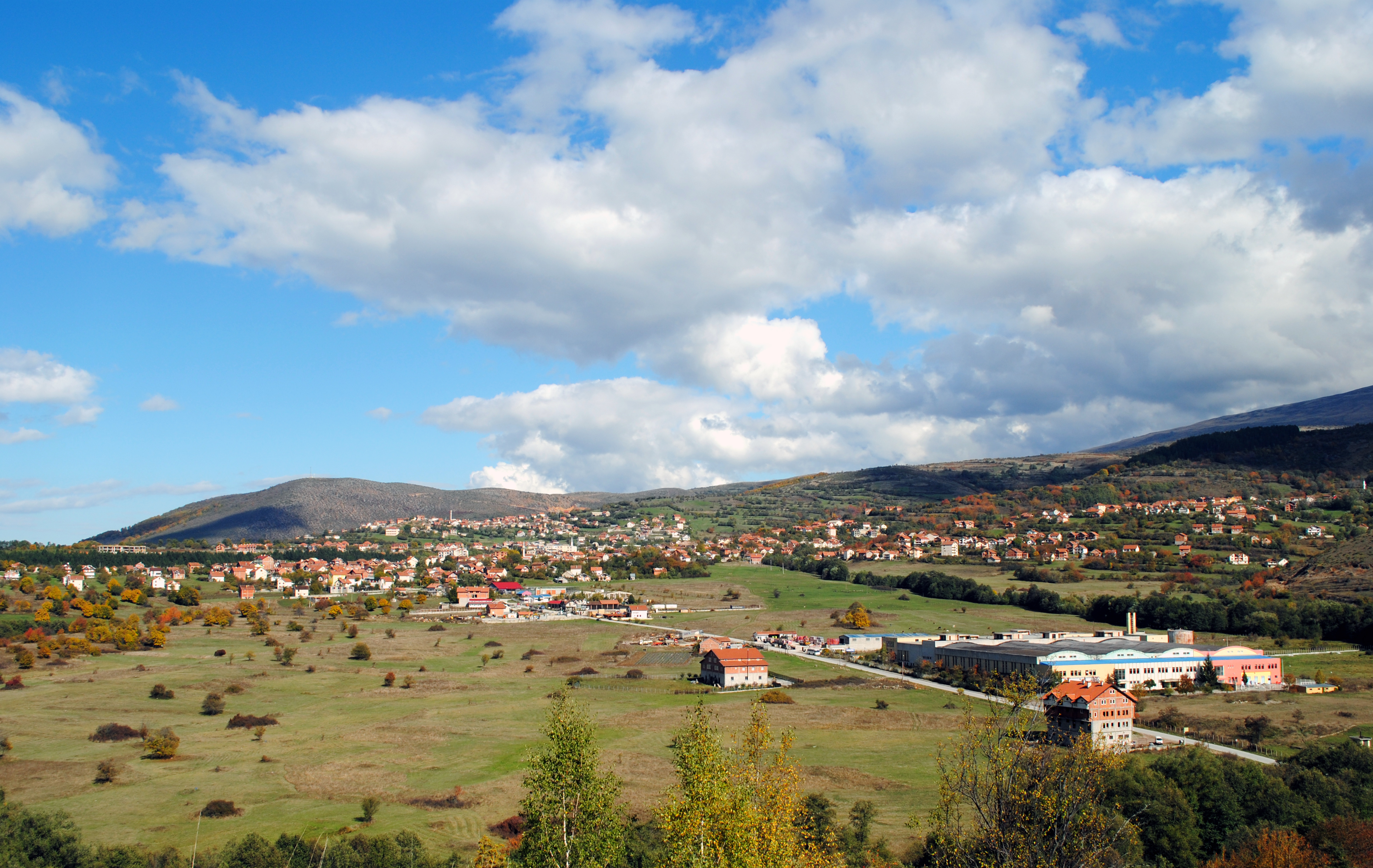 Dragash